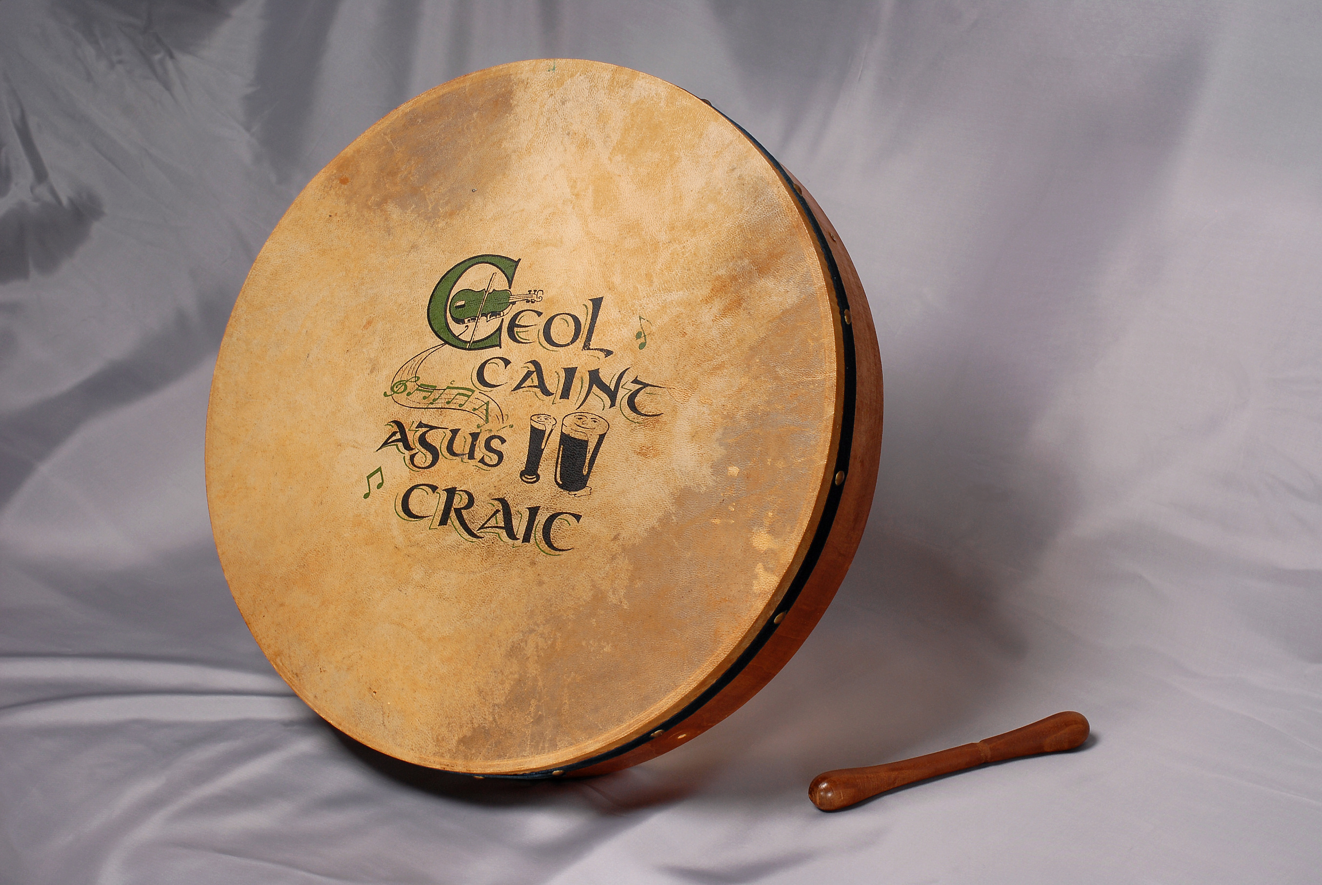 Bodhrán for decoration purposes. Kindly provided by The Old Dubliner Irish Pub Hamburg-Harburg